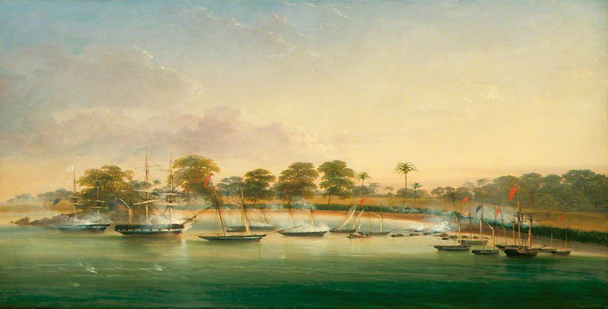 British Men o' War Attacked by the King of Lagos in 1851, by James George Philp Date 1851 Medium oil on canvas Measurements H 76.5 x W 117 cm Accession number 6427